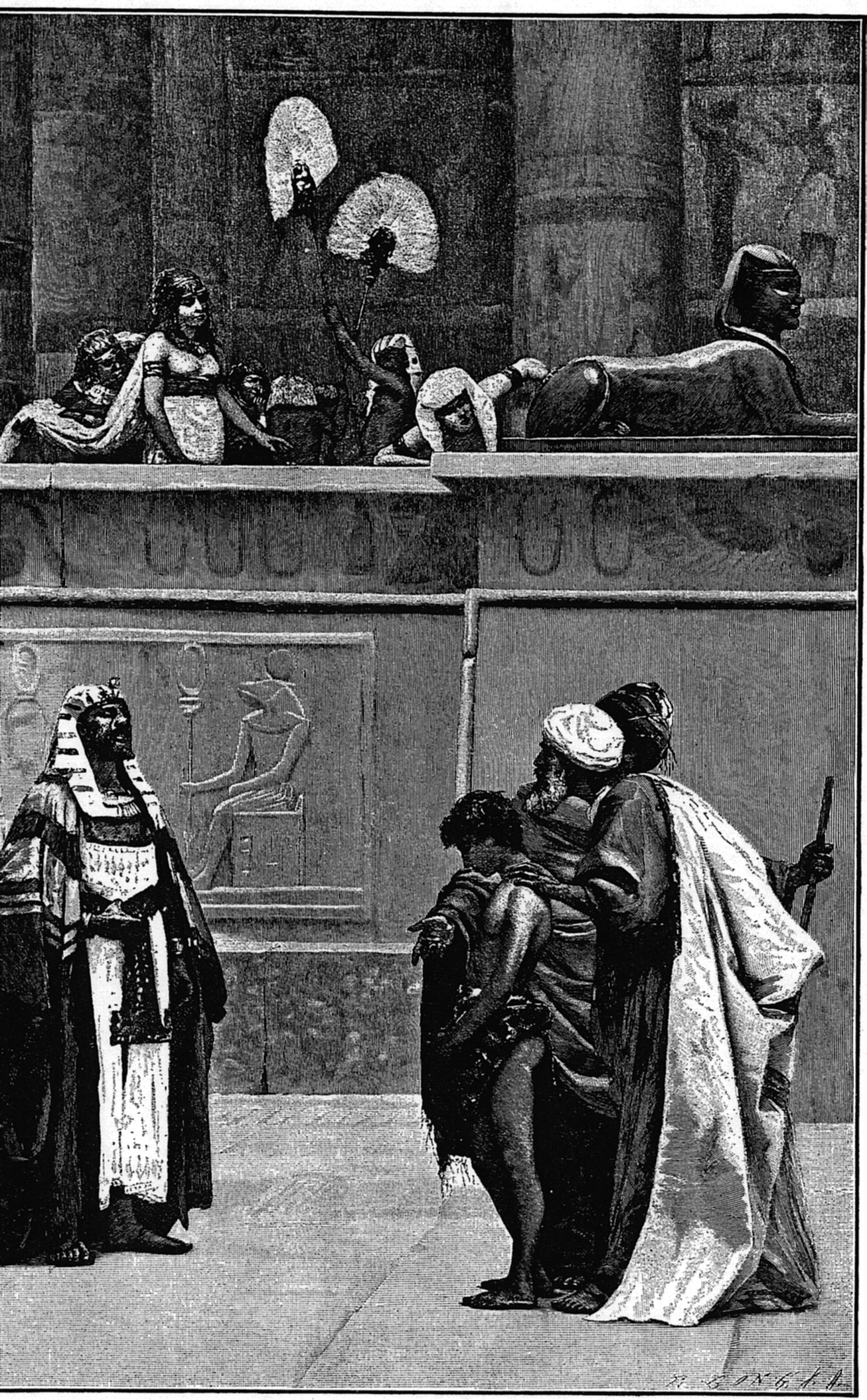 Joseph sold to Potiphar